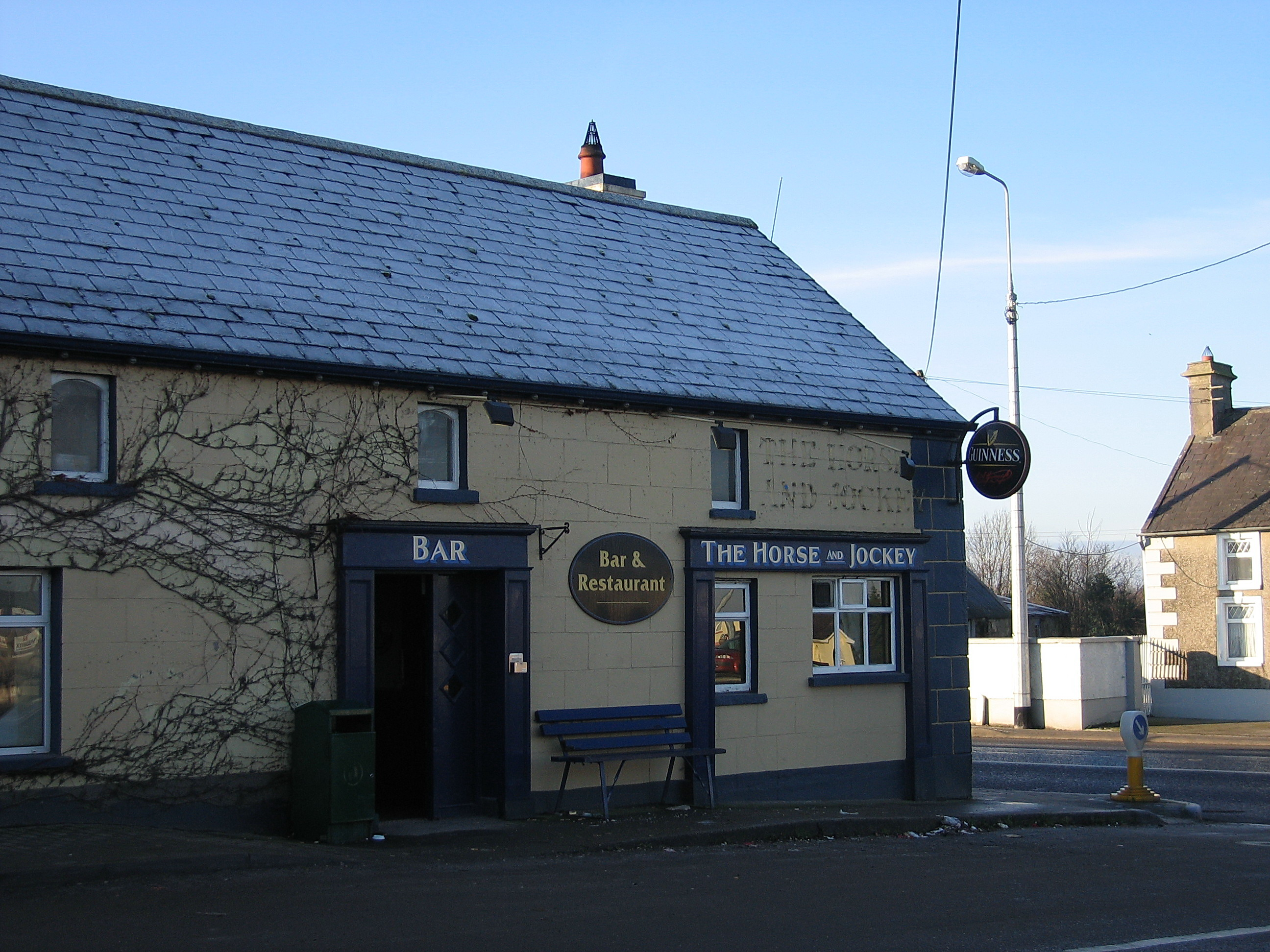 The Horse and Jockey pub at the crossroads in Horse and Jockey village. (Sarah777 03:04, 27 December 2006 (UTC))